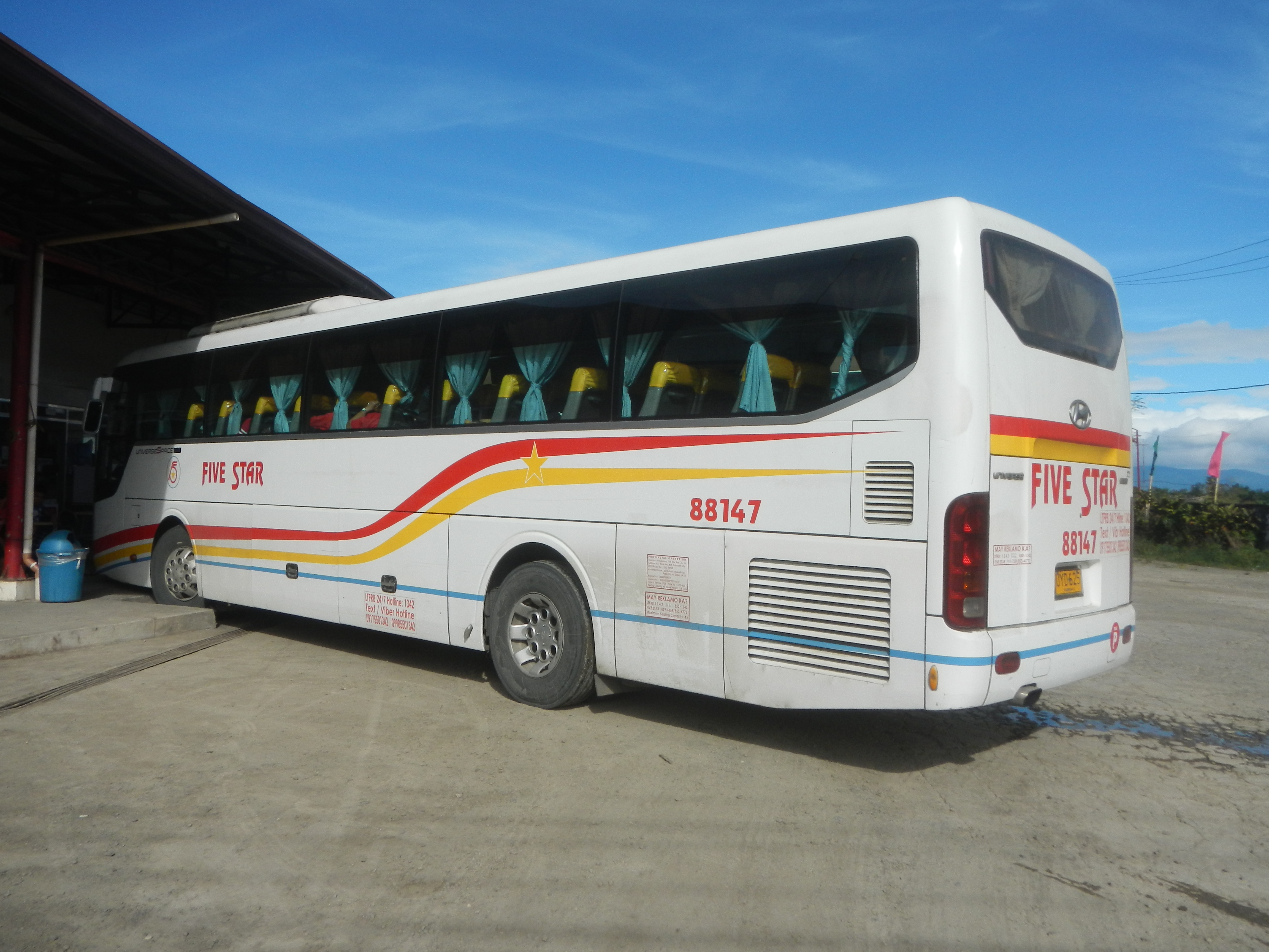 Five Star and Cisco buses in bus stop in Barangays Balite, Camias 15°9'53"N 120°58'26"E San Miguel, Bulacan beside the Five Star bus stop, along the Pan-Philippine Highway, also known as the Maharlika "Nobility/freeman" Highway in Cagayan Valley Road (Note: Judge Florentino Floro, the owner, to repeat, Donor Florentino Floro of all these photos hereby donate gratuitously, freely and unconditionally all these photos to and for Wikimedia Commons, exclusively, for public use of the public domain, and again without any condition whatsoever).